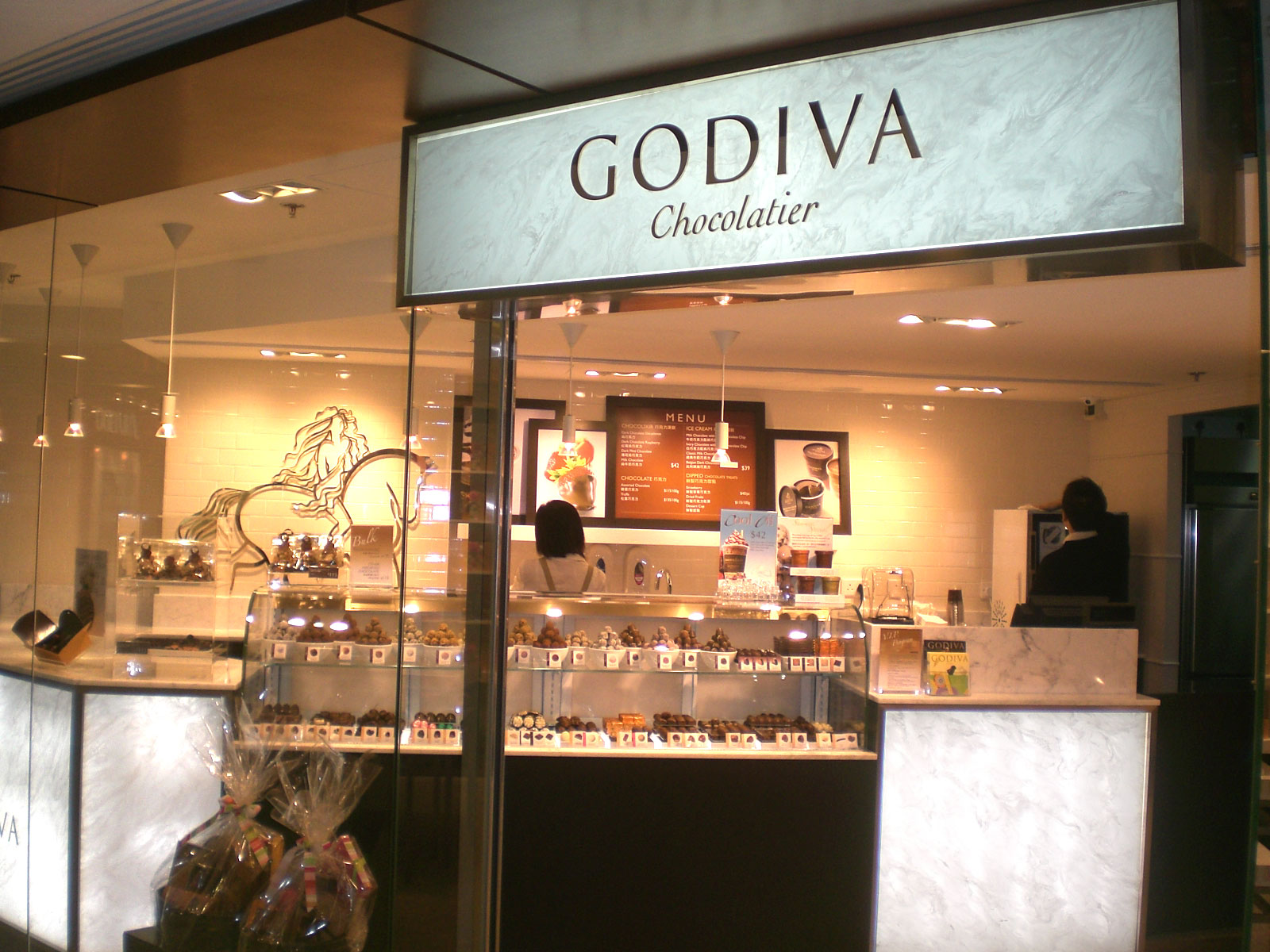 商店GODIVA Chocolatier@九龍灣德福廣場